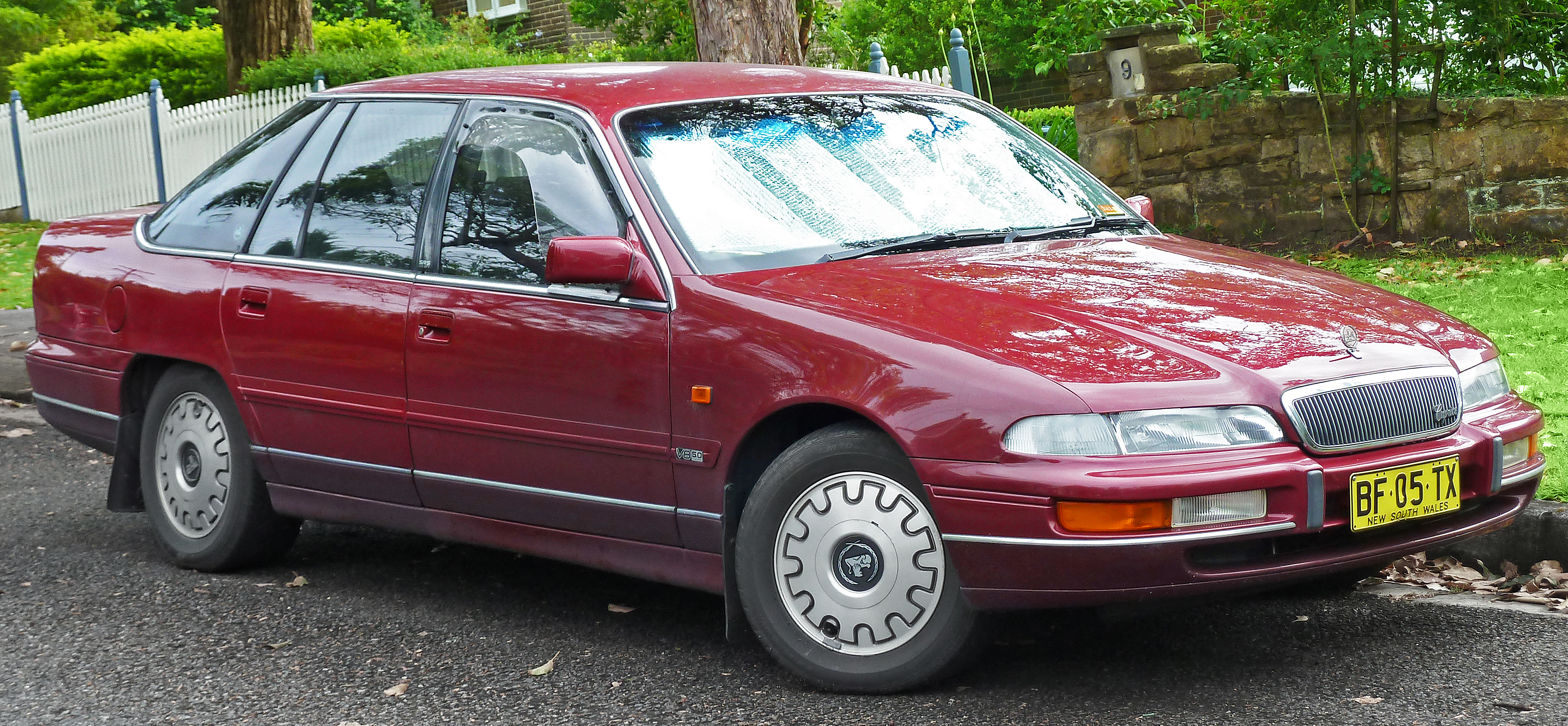 1994 Holden Caprice (VR) sedan. Photographed in Gordon, New South Wales, Australia.